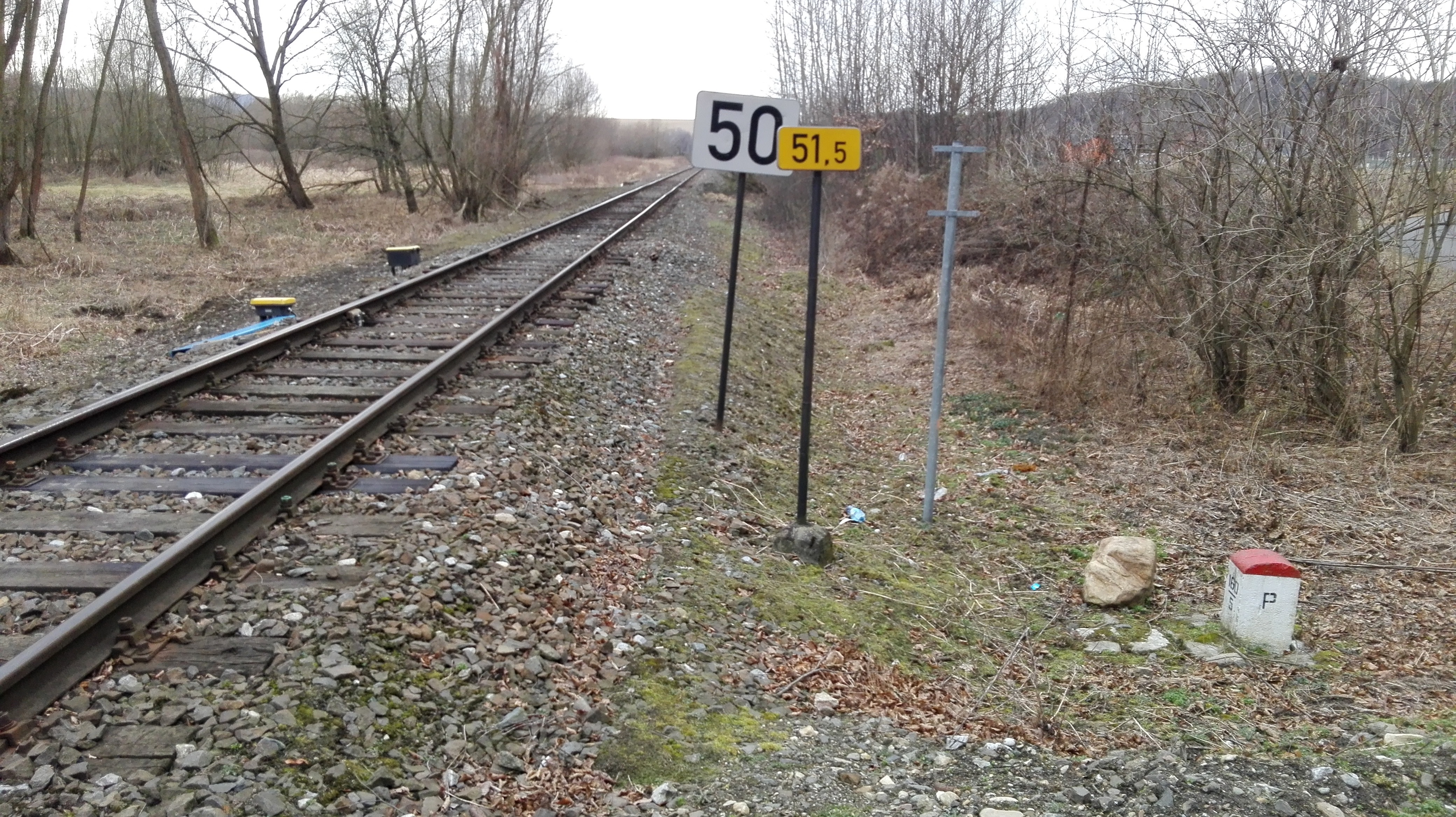 Railway Głuchołazy-Mikulovice border crossing